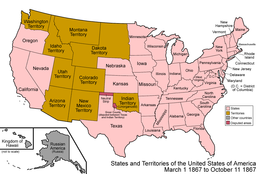 Map of the states and territories of the United States as it was from March 1867 to October 1867. On March 1 1867, Nebraska Territory was admitted as the state of Nebraska. On October 11 1867, the United States purchased Alaska from Russia, and it was designated the Department of Alaska.